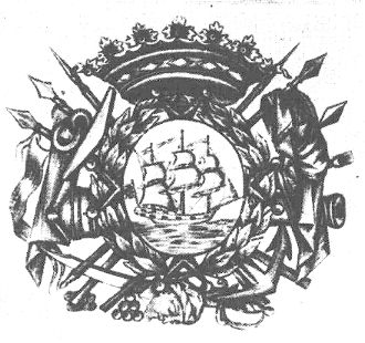 Official coat of arms of Spanish admiral Don Antonio Barcelo y Pont de la Terra. As seen in his official portrait.